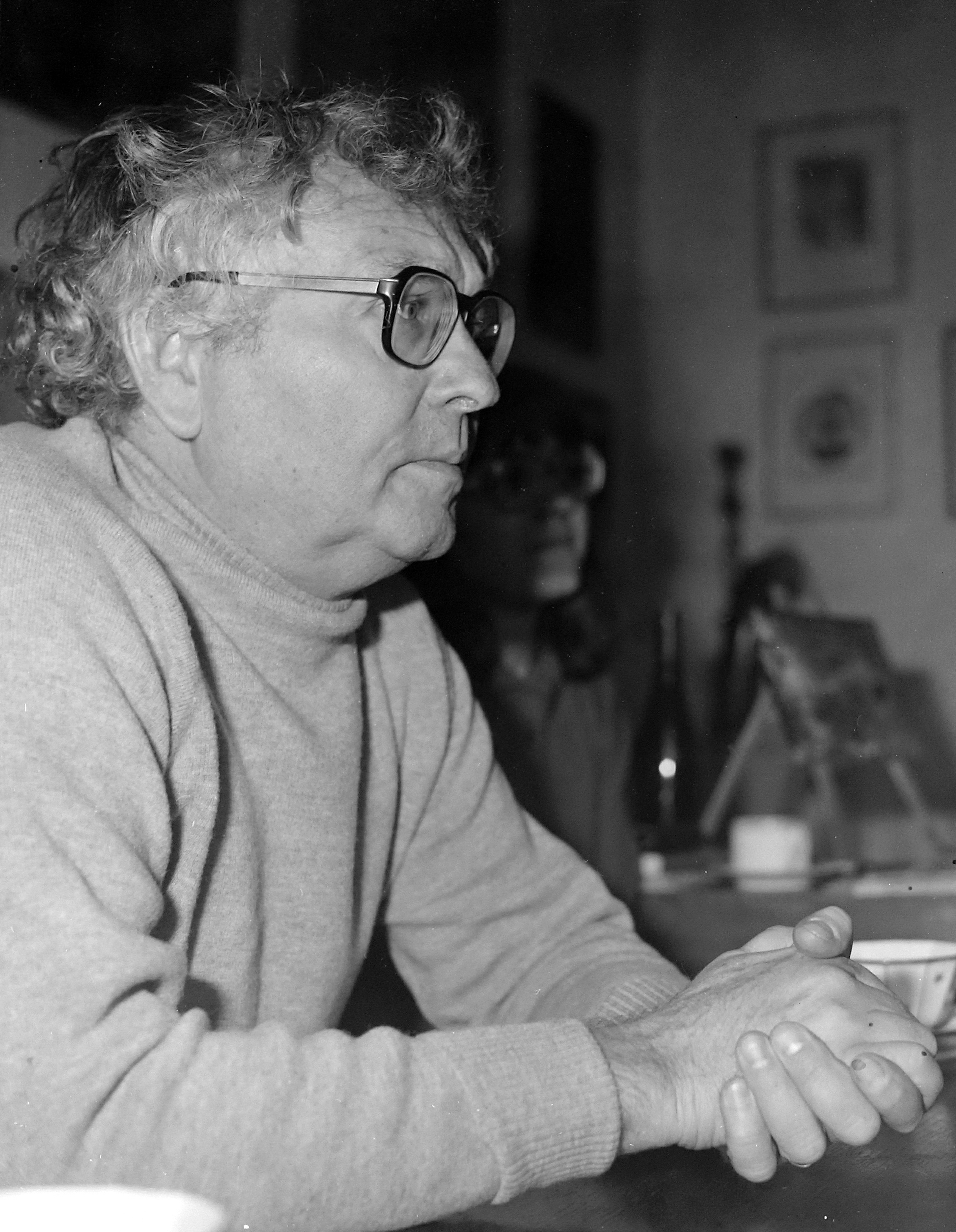 Czech artist and poet Ladislav Novák